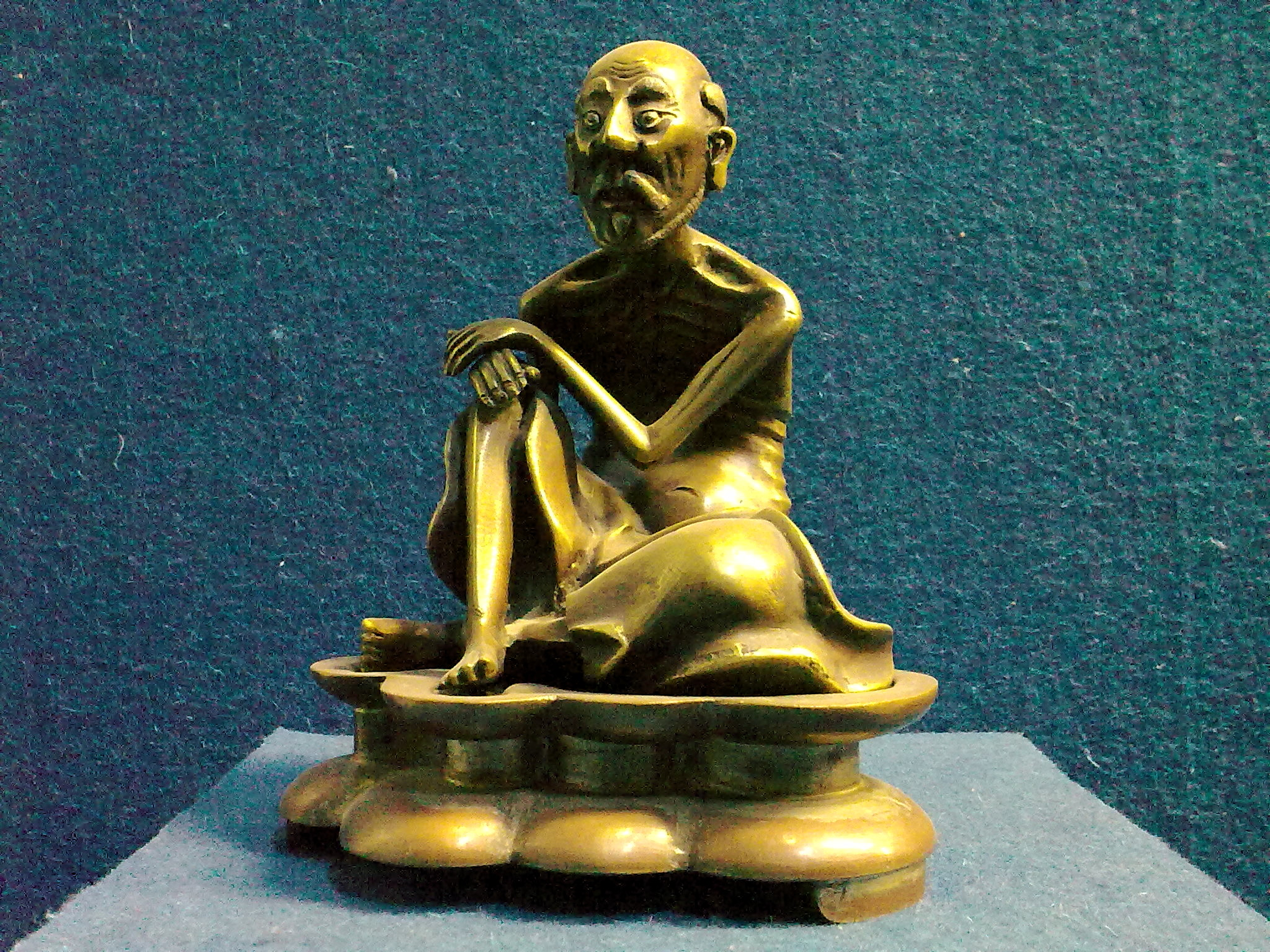 Milarepa Statue (Mongolia)